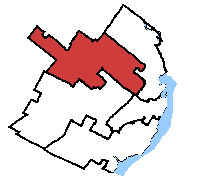 Map of Charlesbourg—Haute-Saint-Charles, Quebec